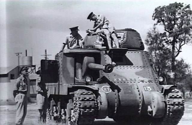 AWM Caption: SINGLETON, NSW, AUSTRALIA, 1943-01. AN OFFICER SEATED ON TOP OF A GENERAL GRANT M3 MEDIUM TANK EXPLAINING THE METHOD OF OPERATING AN AMERICAN TYPE PISTOL FOR FIRING SMOKE-SCREEN SHELLS FROM THE INSIDE OF A TANK. SHOWN ARE:-VX28211 CAPTAIN P.J. PARSONS, AUSTRALIAN ARMY MEDICAL CORPS (1), VX14147 CAPTAIN J.C. MCALLESTER (2), VX15247 CAPTAIN A. MCFARLANE (3), VX3361 CAPTAIN J. MCNALLY (4), ALL OF 3RD AUSTRALIAN ARMY TANK BRIGADE.